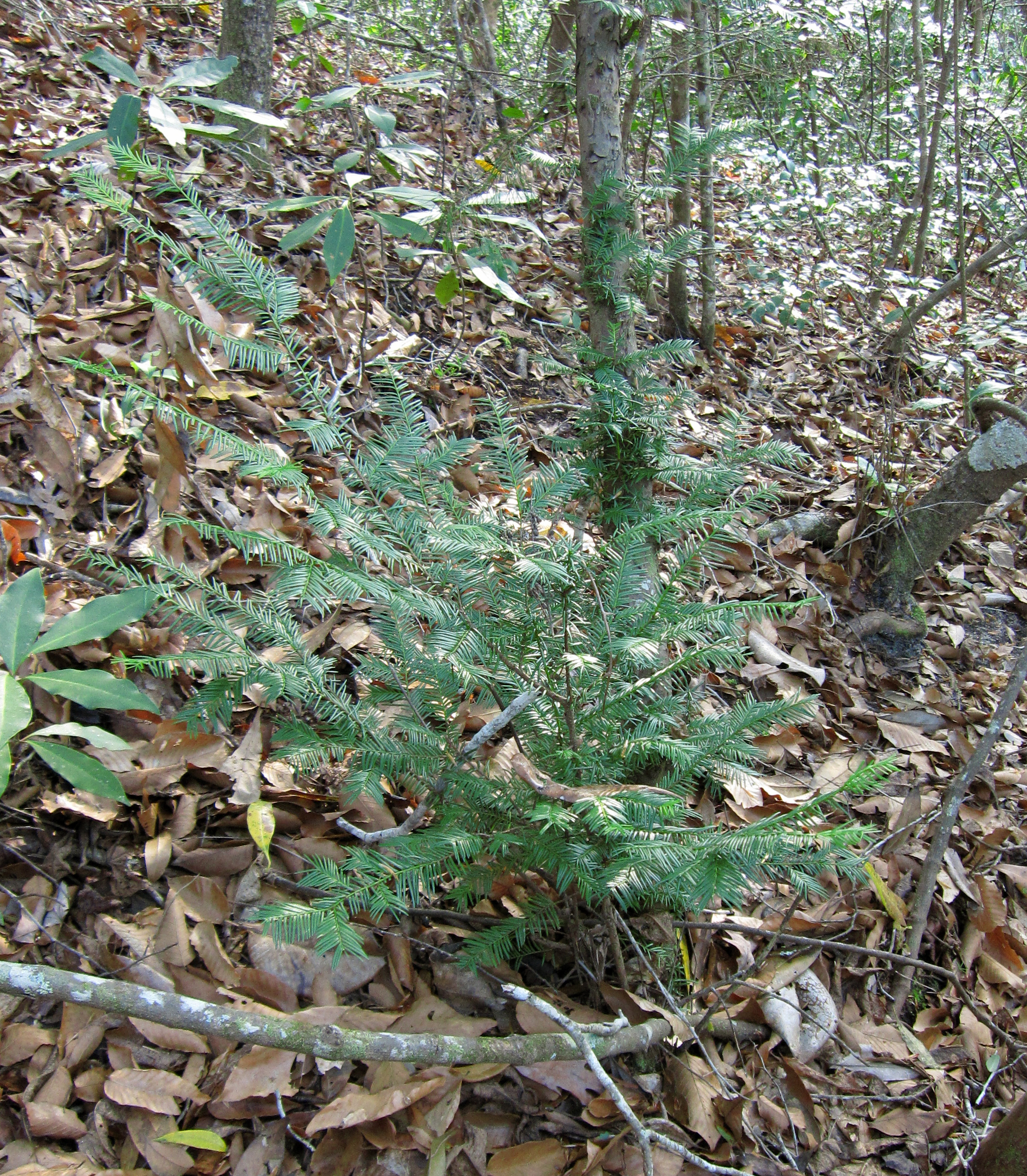 Florida Yew Taxus floridana on slopes at Apalachicola Bluffs and Ravines Nature Reserve